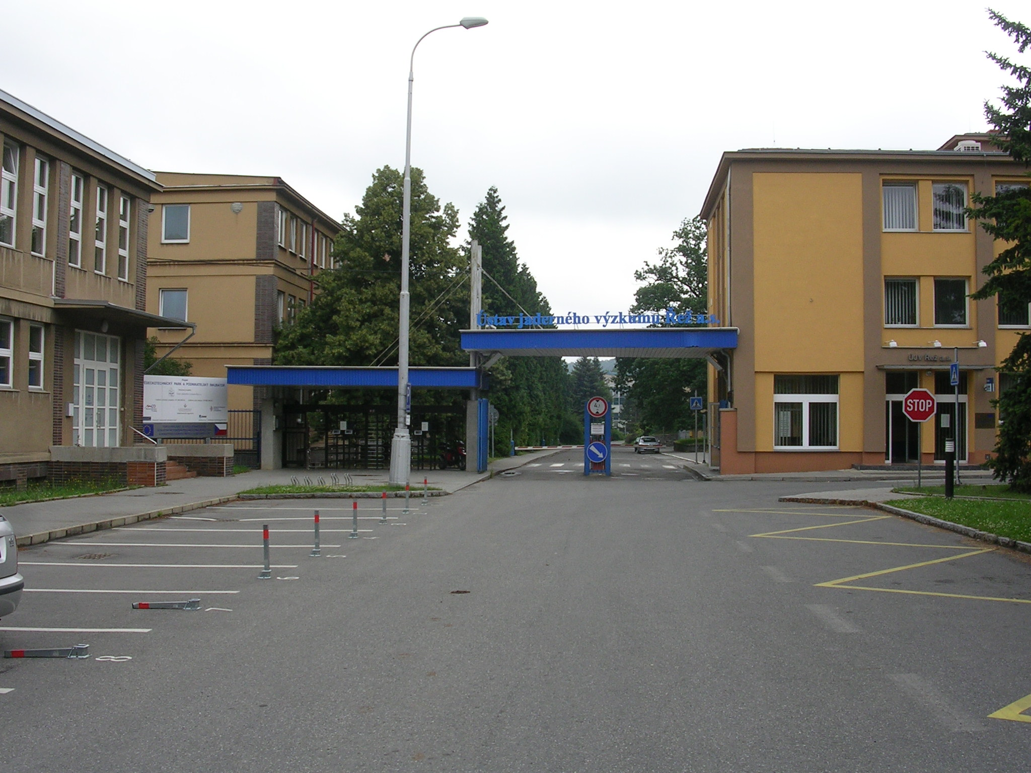 Husinec-Řež, Prague-East District, Central Bohemian Region, the Czech Republic. Institut of Nuclear Research. - Google Maps - Google Earth